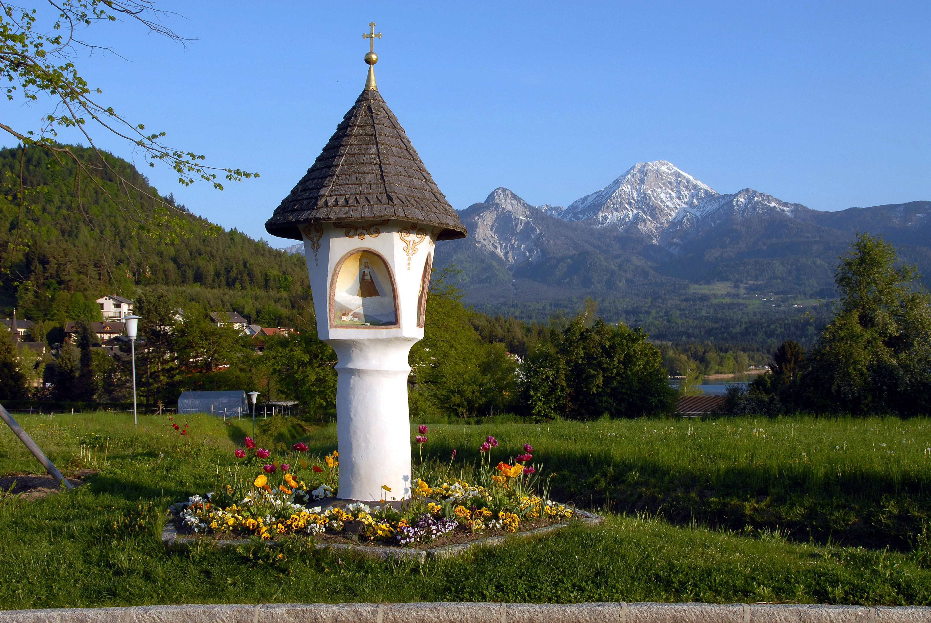 Baroque alcove wayside shrine in the northern corner of Egg on the Faaker Lake, Villach, Carinthia, Austria. Mount Mittagskogel in the background